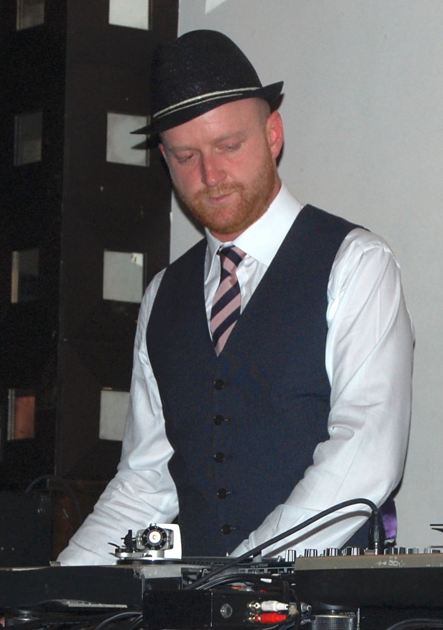 Switch DJ'ing